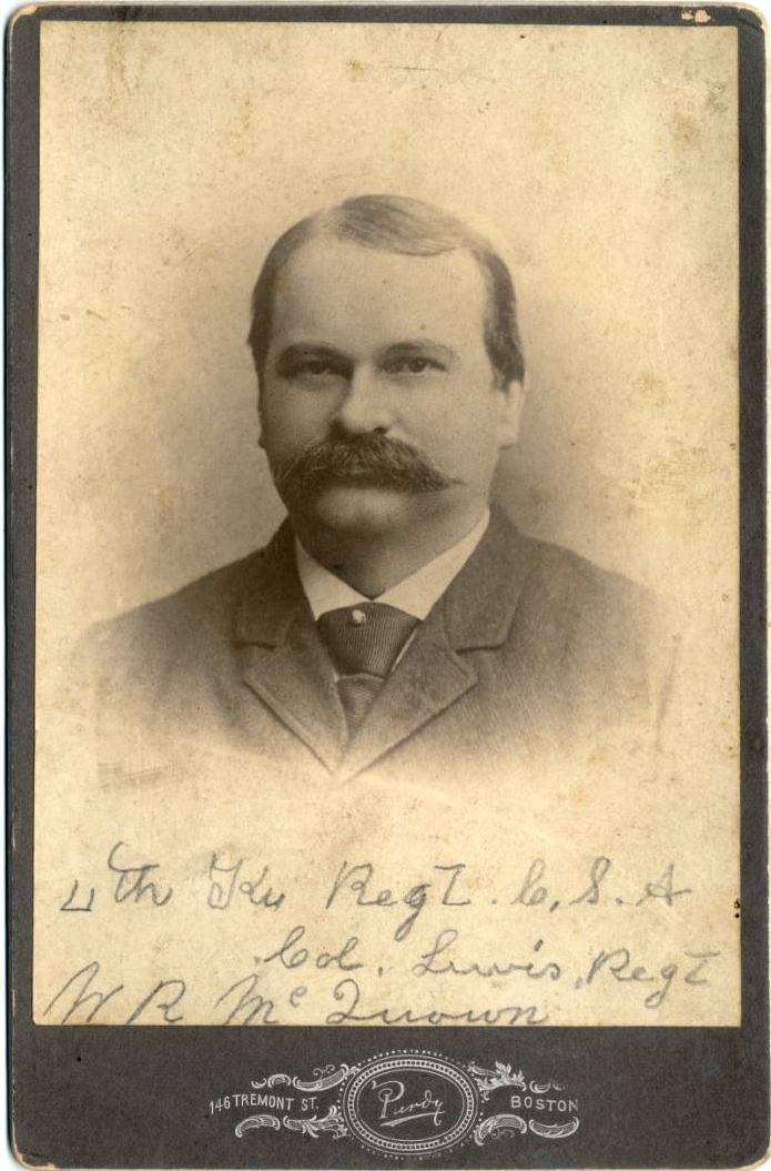 Carte-de-Visite of William R. McQuown (1842-1897), a mid-19th century American composer known for the "Cadet's March", "I Knew Her Heart in Silence Wept," and "Those Witching Eyes," among others, Tennessee State Library and Archives. Note: An inscription beneath the image reads, "4th Ky. Regt., C.S.A./ Col. Lewis Regt./ W. R. McQuown." An inscription on the back, "Leader of the 4th Ky. Regt and the 1st Tenn Band until the surrender in 1865. First cousin of Geo. S. Nichols."